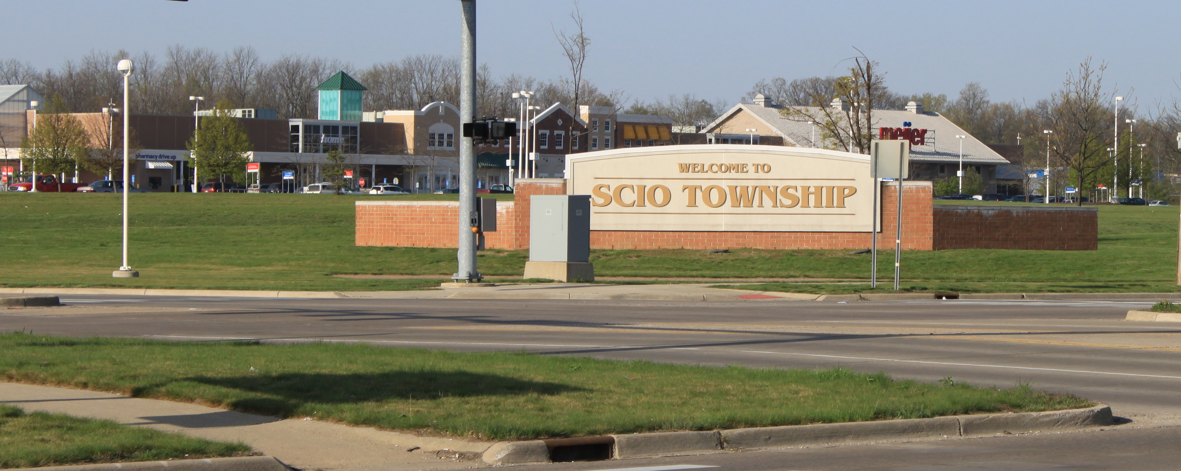 Meijer Shopping Center, Jackson & Zeeb roads, Scio Township, Michigan